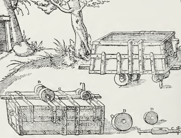 Early mine wagon (German: "Leitnagel-Hund") running on wooden rails.